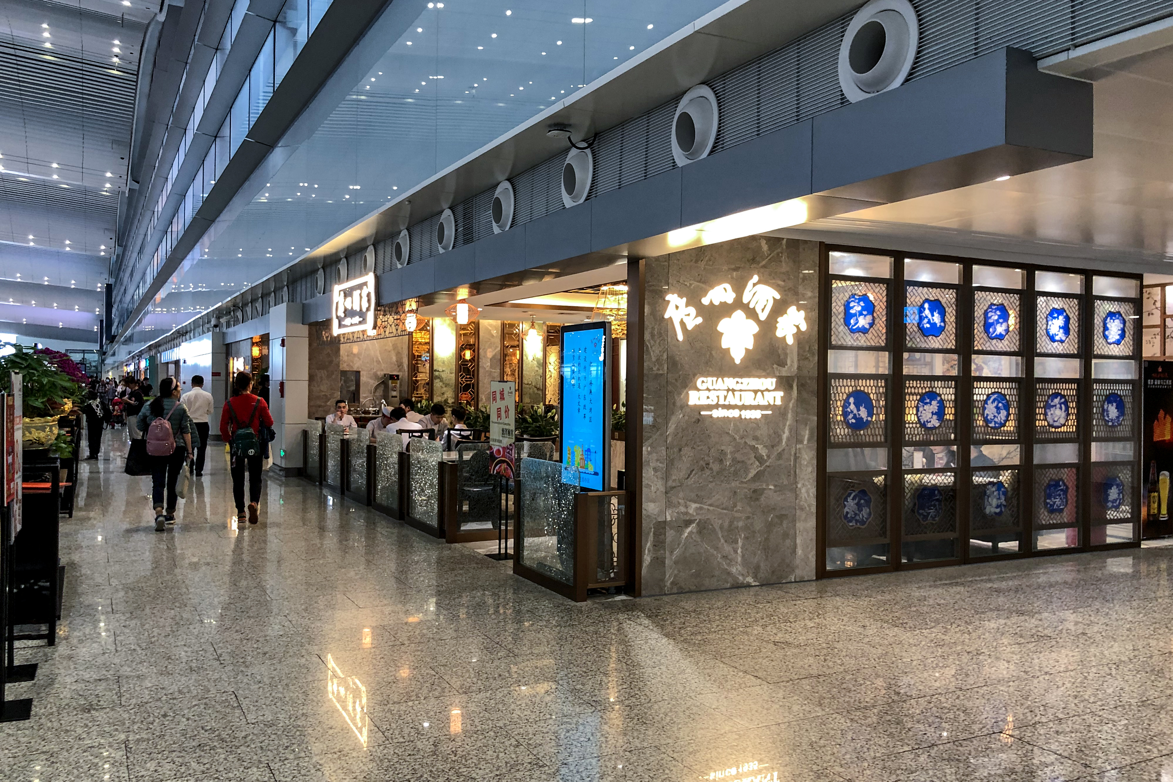 "Same city, same price" - above the departure hall.